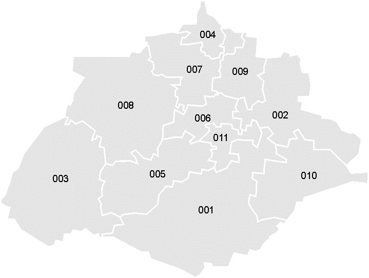 Map of the Municipalties of the State of Aguascalientes, México.